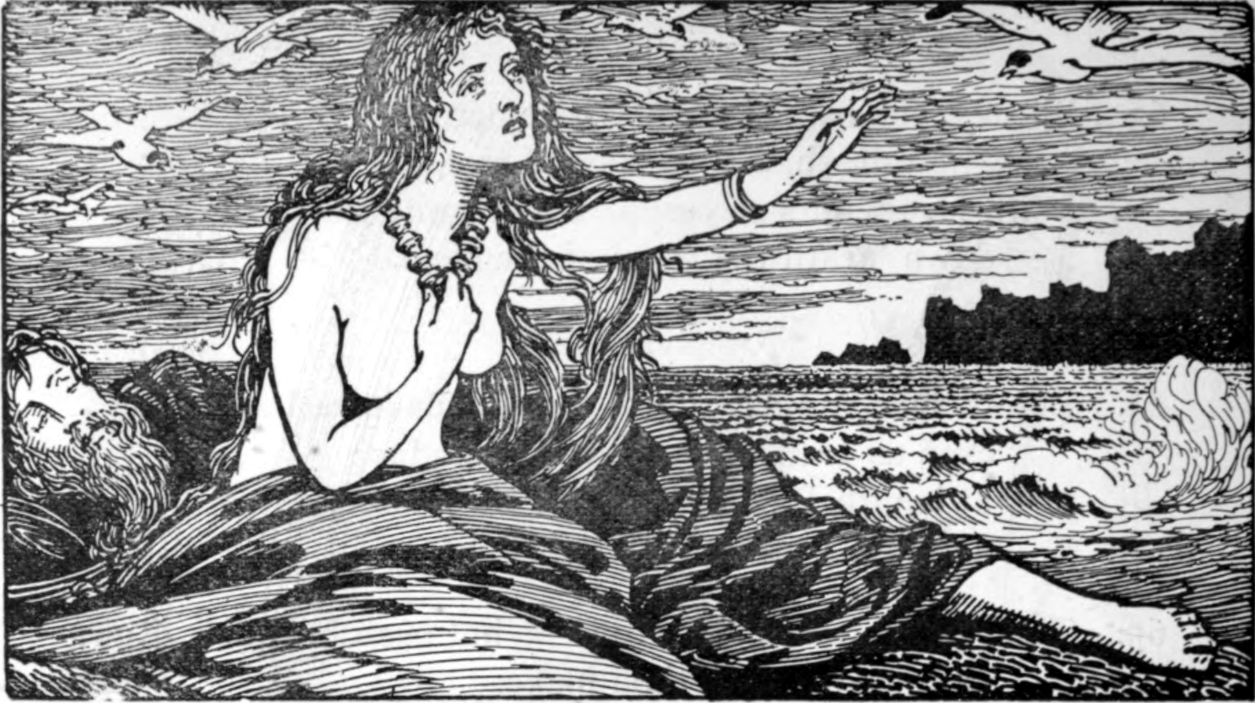 An illustration to the Edda. The list of illustrations in the front matter of the book gives this one the title Skadi's longing for the Mountains.